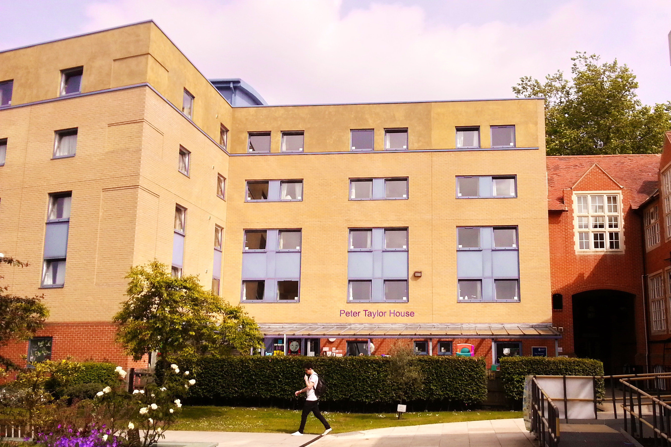 Peter Taylor House is one of the residential establishments to take place within the university campus in Cambridge.